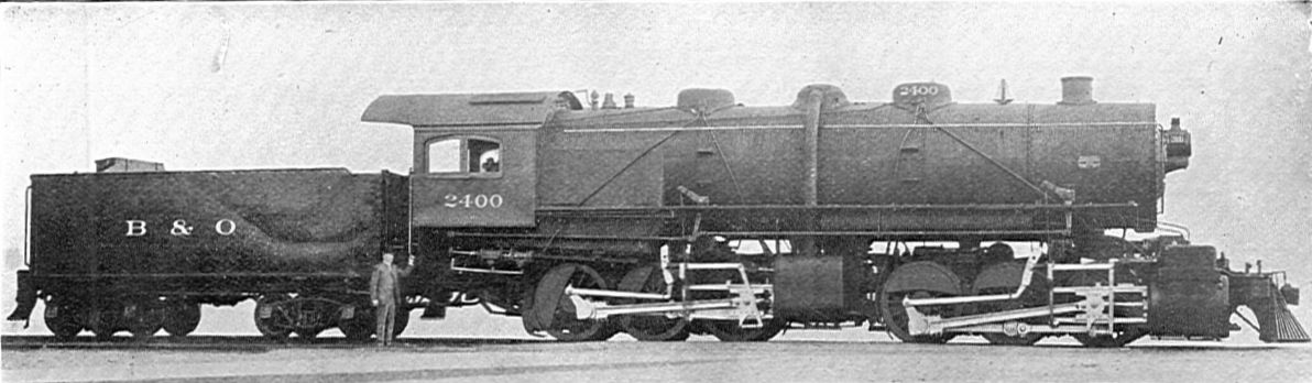 Mallet Articulated Compound, Baltimore and Ohio Railroad.